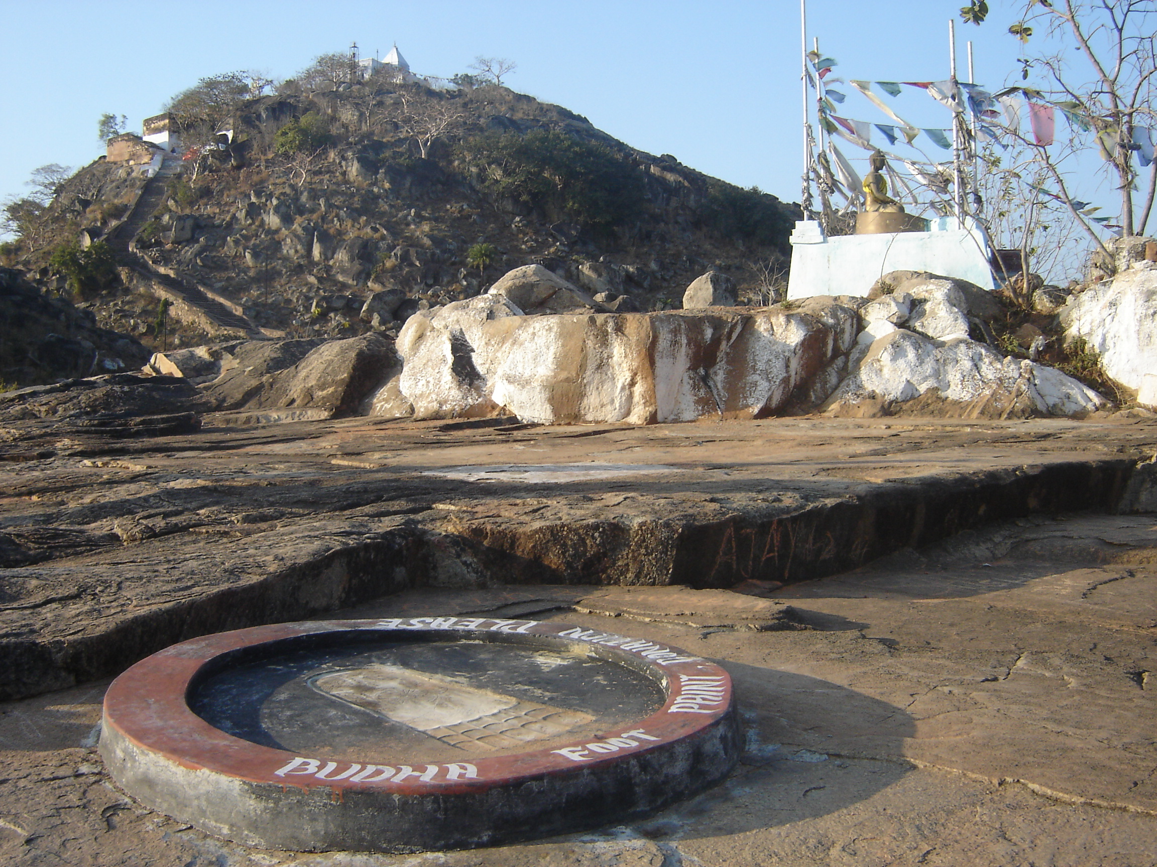 Picture of Brahmayoni hill, or Gayasisa, where Buddha preached the Fire Sutta (Adittapariyaya Sutta). Gaya, Bihar, India.